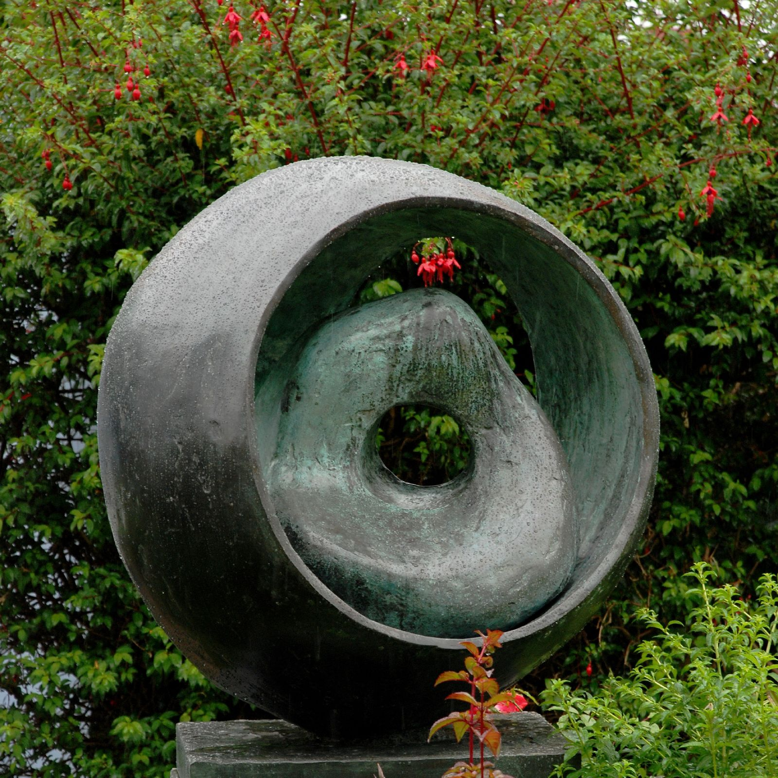 Sculpture in the Barbara Hepworth Sculpture Garden with fuschias in background. Colour photo